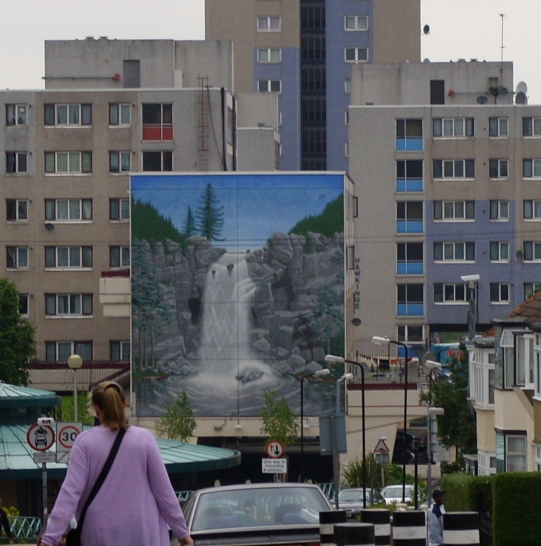 Panorama of Broadwater Farm, London N17